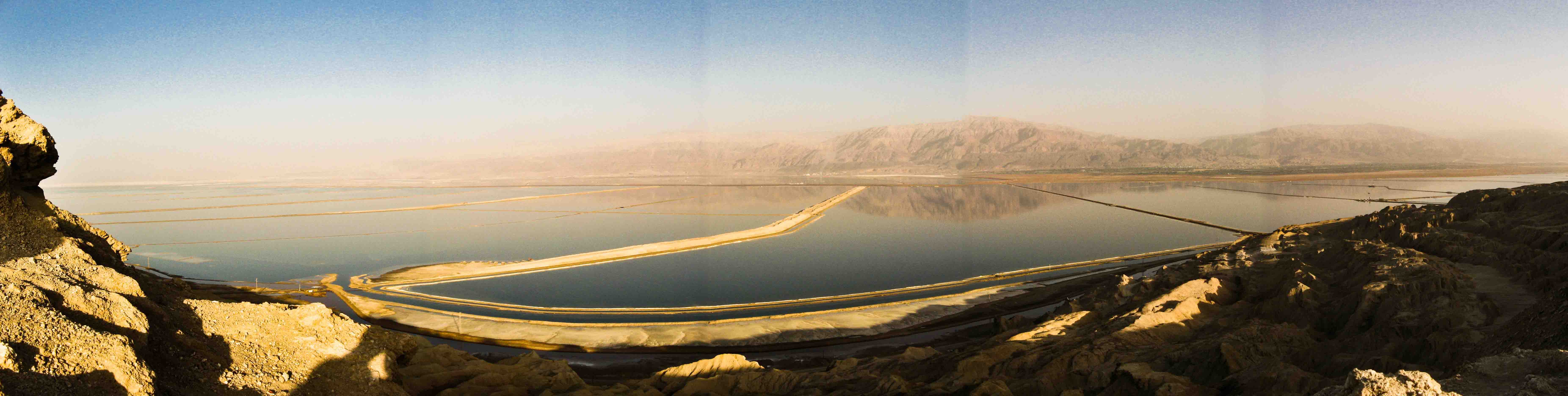 Panorama of the Dead sea from Mount Sdom